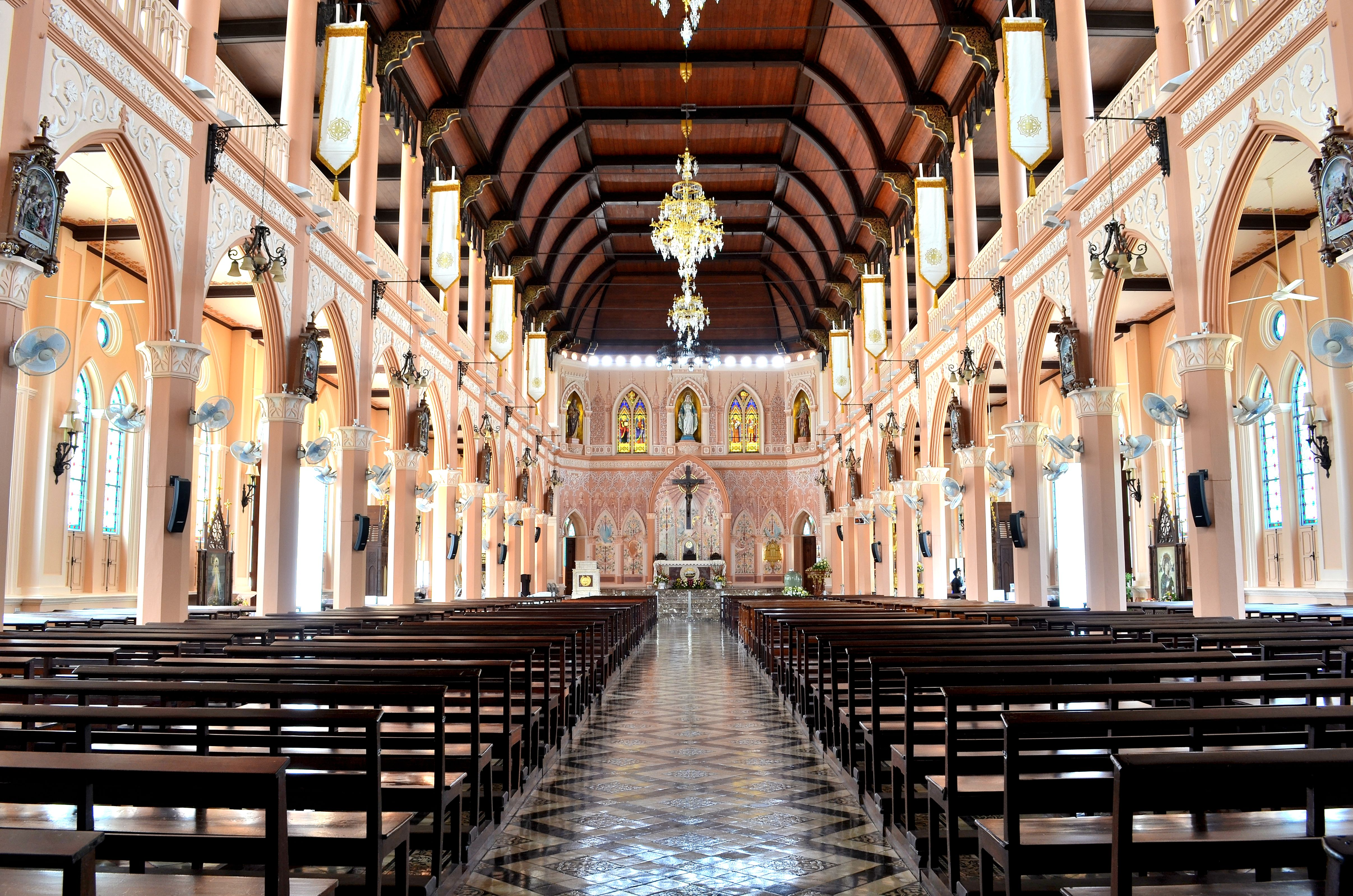 The Cathedral of the Immaculate Conception, commonly known in Thai as Wat Roman Khatholik ("Roman Catholic Temple"), Mueang Chantaburi District of Chanthaburi Province.